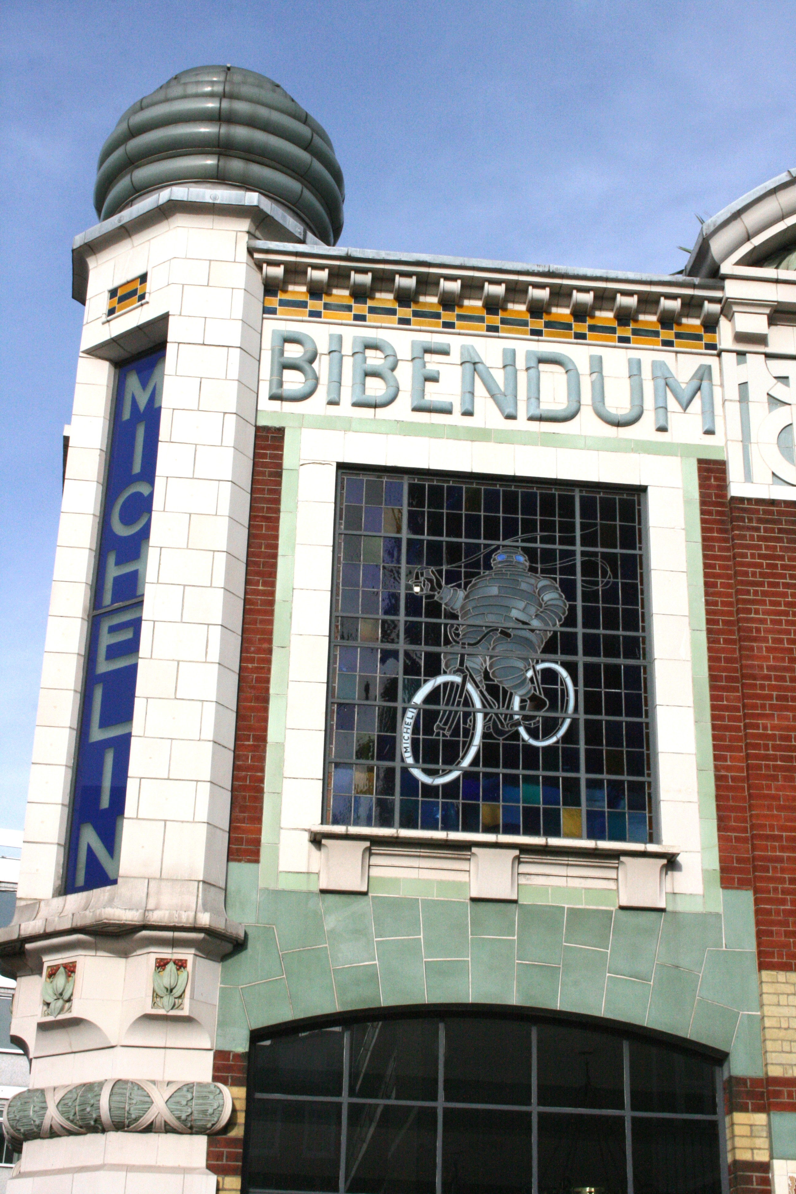 81 Fulham Road, London SW3, Great-Britain. Michelin House (1911), Art Nouveau building by François Espinasse. Stained Glass window